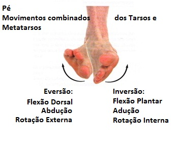 Inversion and Eversion